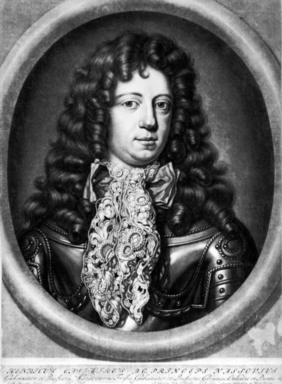 Henry Casimir II, Prince of Nassau-Dietz (1657-1696).